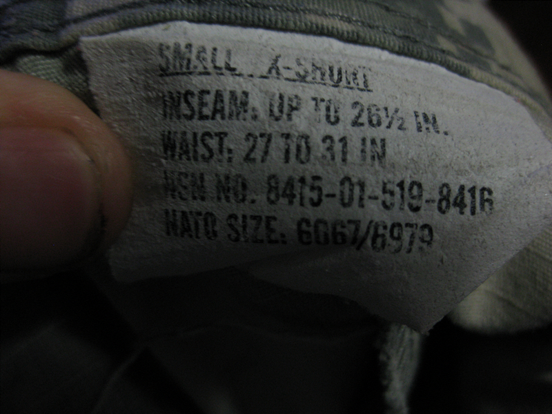 NSN in the ACU trousers.